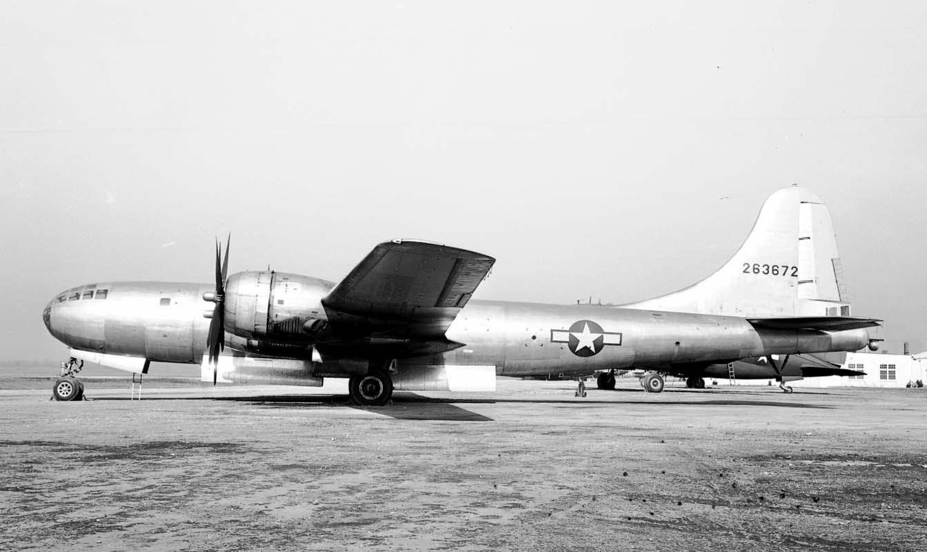 Feb 1946. Built by Bell Aircraft at Atlanta, Georgia.